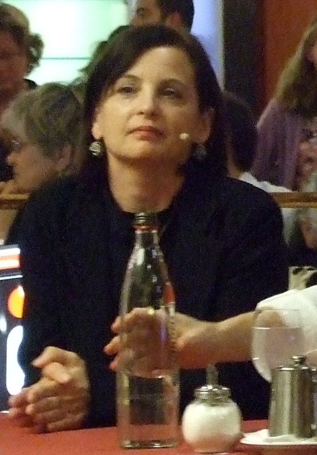 Krystyna Kuhn, German writer, 2009 in Frankfurt am Main